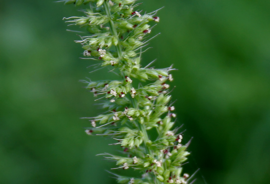 Setaria verticillata (Syn.Panicum verticillatum, Pennisetum verticillatum)- Bristly Foxtail , bur bristle grass, bur grass, foxtail, hooked bristlegrass • Hindi: Laptuna, Latkaunya • Tamil: Amarippul, Chankari, Chataippul • Telugu: Chigirinta gaddi, Chikilinta gaddi- in Hyderabad, India.